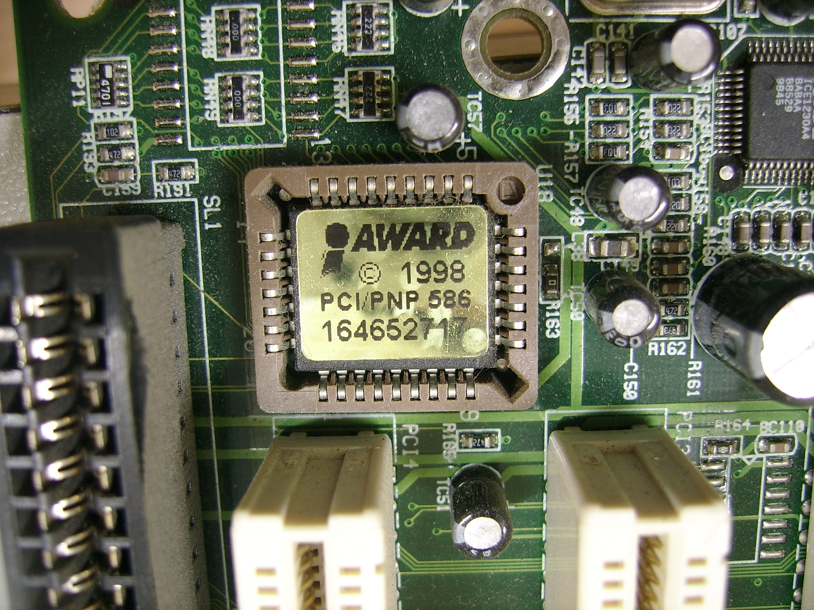 Award Bios 1998